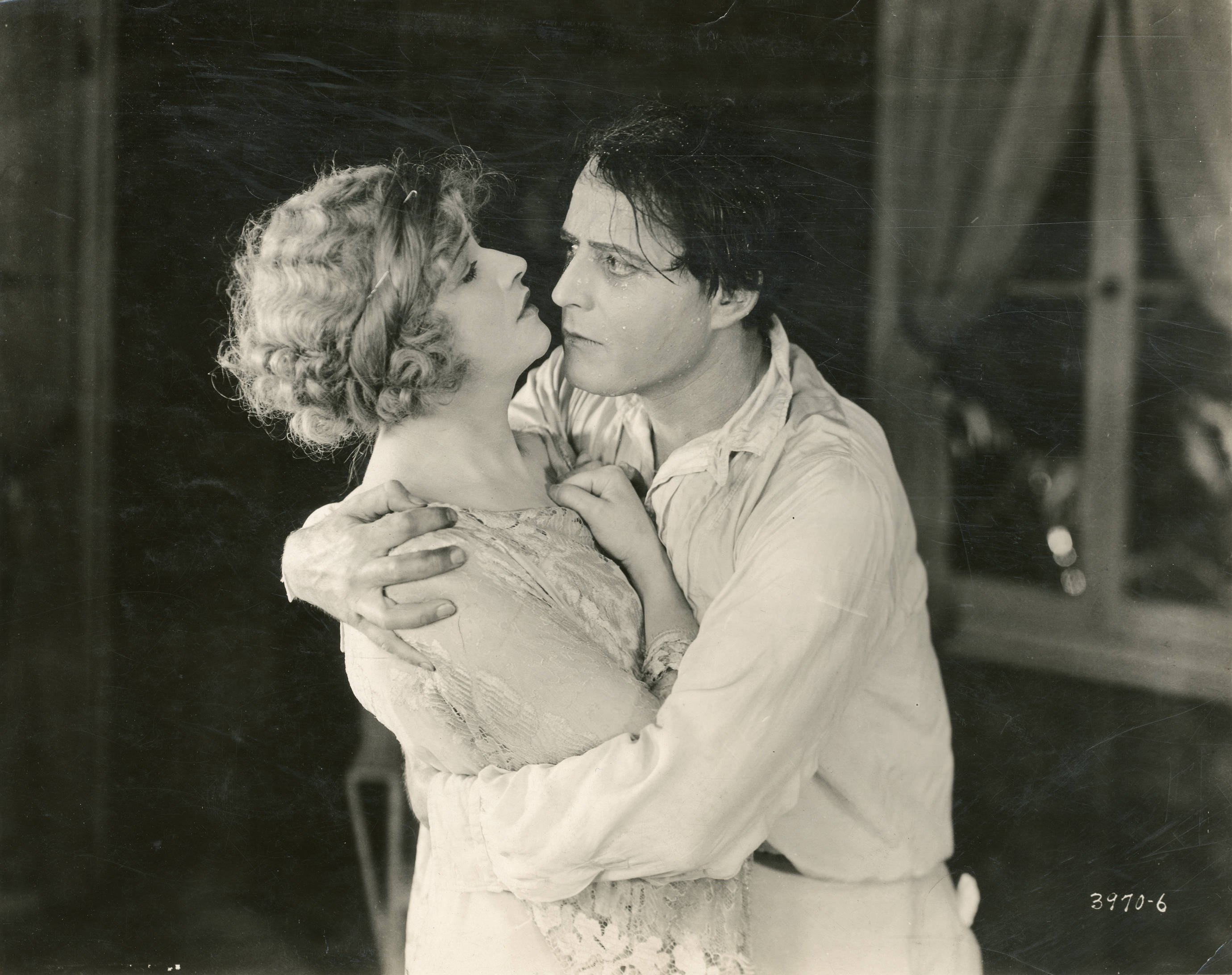 Still from the American drama film Thundering Dawn (1923). Subjects: motion pictures, actors, actresses